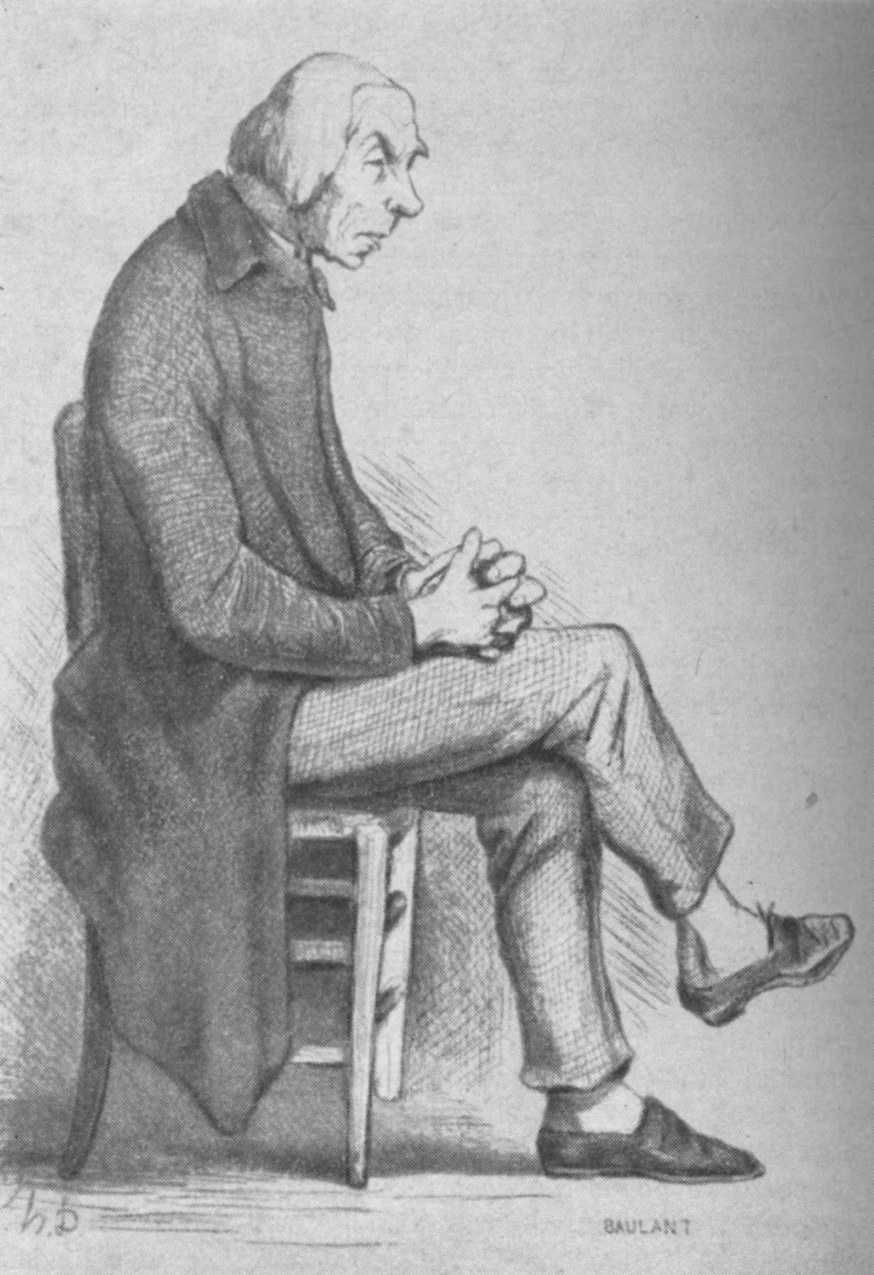 Technique: Wood engraving.